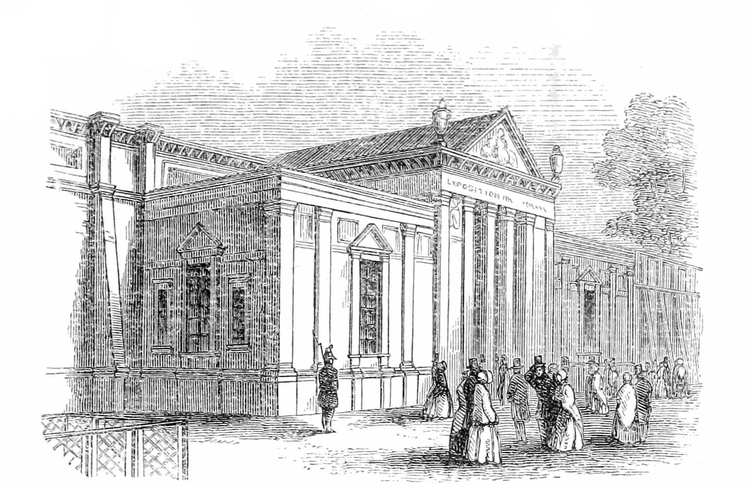 View of the Principal Entrance to the French Exposition in 1849.